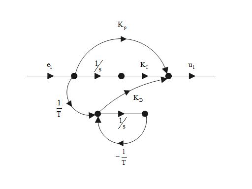 PID Signal flow diagram